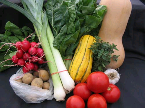 Local foods